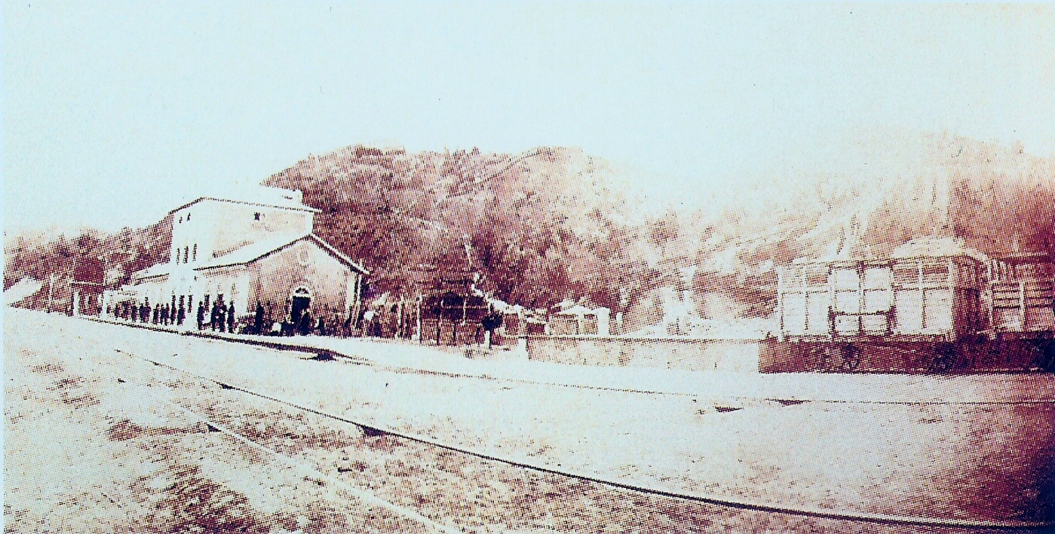 Santarém Railway Station, in Portugal. This photograph was taken during the second half of the 19th Century.